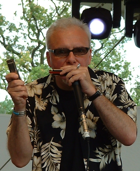 Jean-Jacques Milteau with two harmonicas. Concert of Jean-Jacques Milteau[1], a great French bluesman, "King of Harmonica", at the Paris Jazz Festival 2006, Parc Floral de Paris, July 8, 2006. JJM's band: Jean-Jacques Milteau, harmonica, vocals Demi Evans, vocals Manu Galvin, acoustic guitar, vocals Gilles Michel, acoustic bass guitar, vocals Eric Laffont, drums, vocals Guest musicians: Zephyrologie brass band[2] Patrick Verbeke Quintet[3]